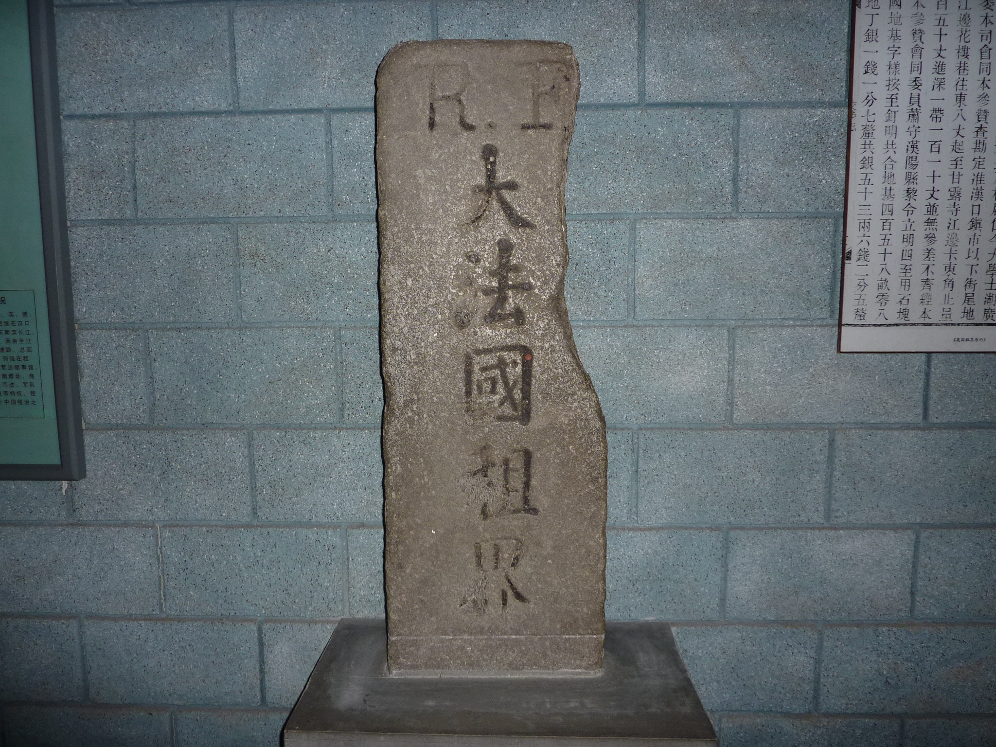 A boundary marker from the former French Concession in Hankou. Presently exhibited in the Xinghai Revolution Museum (Wuchang Uprising Memorial) in Wuchang. "RF" stands for République française.